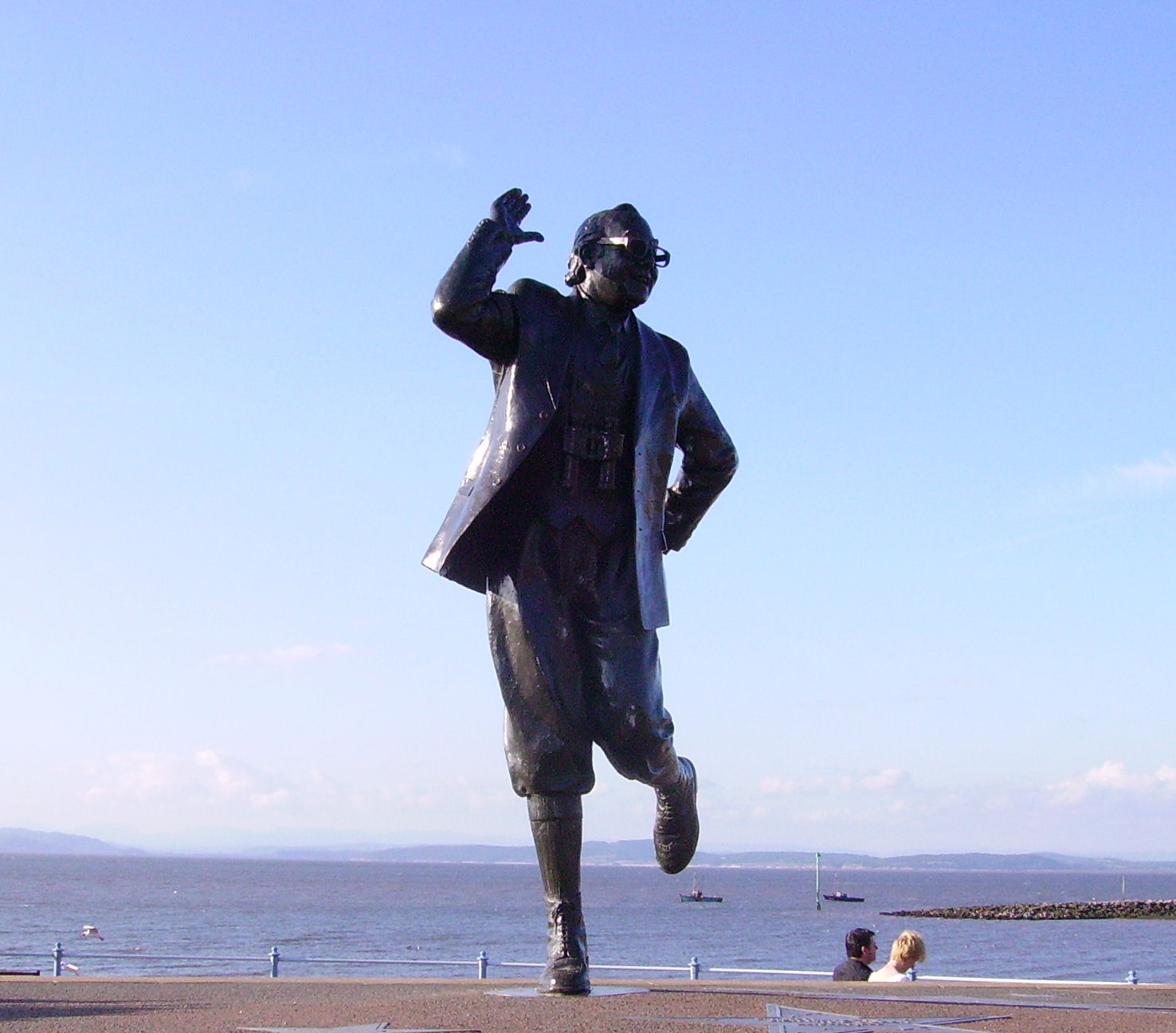 view of Morecambe, United Kingdom